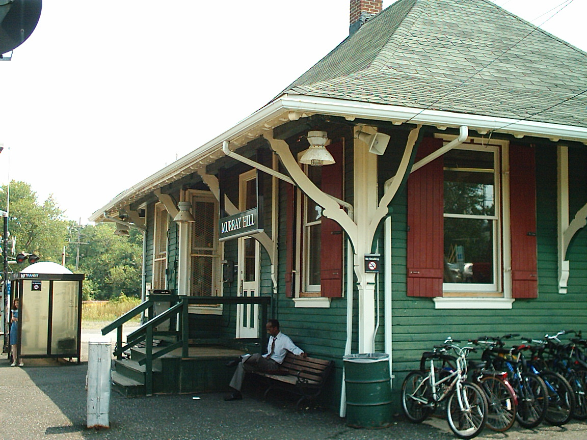 The Murray Hill Station building, looking eastbound.